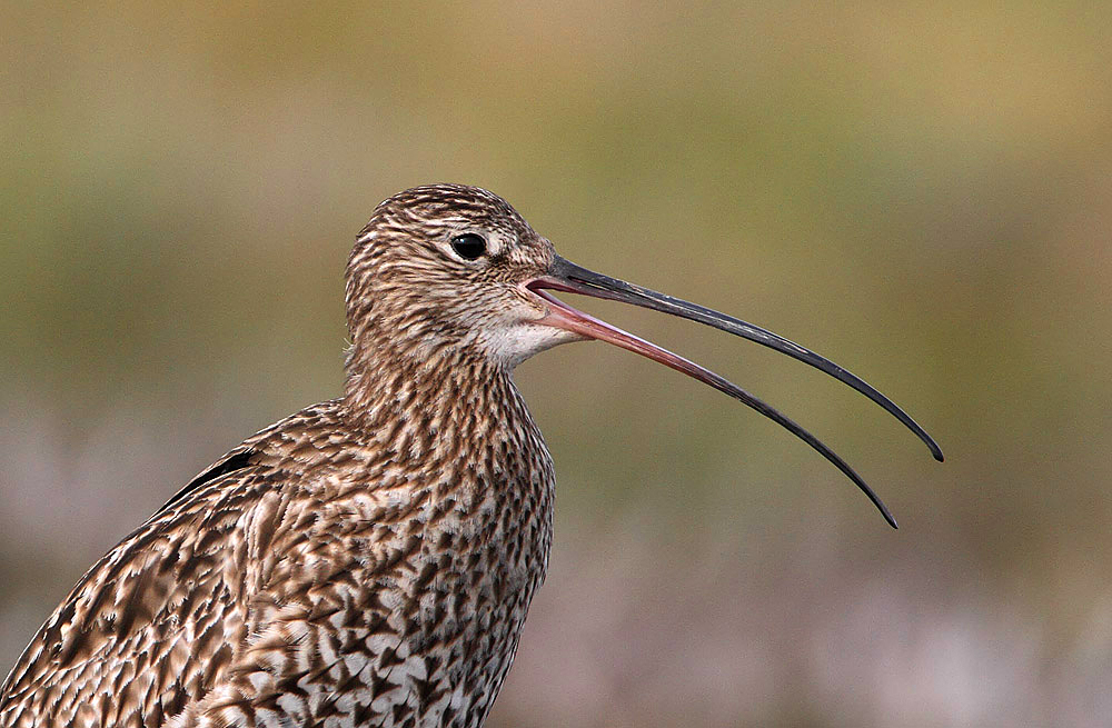 An adult "singing" on territory. Image taken on moorland near Lochindorb, Speyside, Scotland.